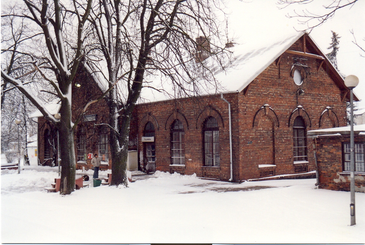 Sochaczew - train station